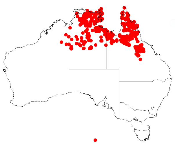 Acacia torulosa Occurrence data from Australasia Virtual Herbarium downloaded from on 8 December 2018